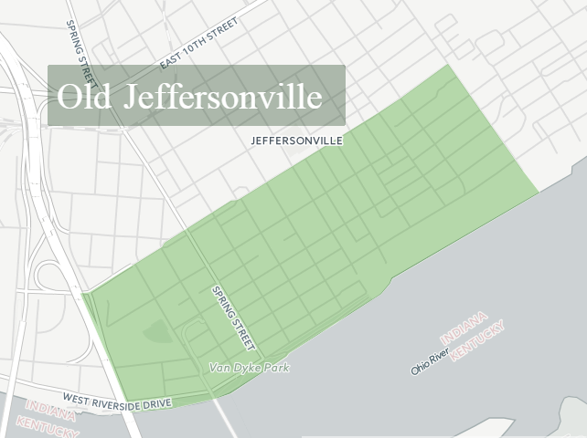 Basemap is Copyright Openstreemap contributors ( & Copyright CartoDB (